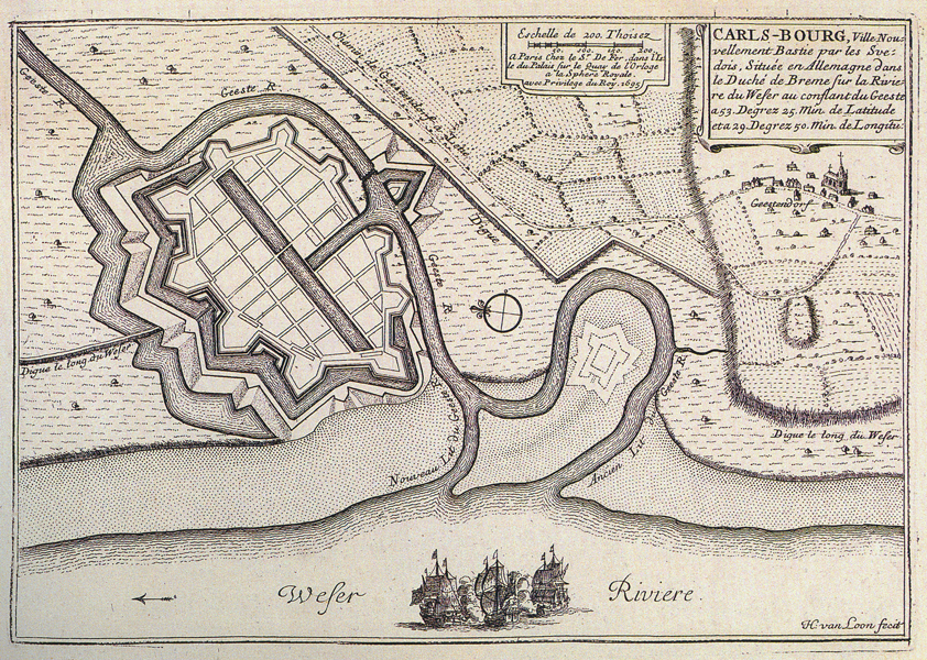 Map of swedish city / fortress of Carlsburg at the junction of the river Geeste with the river Weser. The layout of the city was designed by Jean Mell around 1672, the copper engraving was made 1695 by Harmanus van Loon. Right-hand the old fortification of the Leher Schanze can be seen.